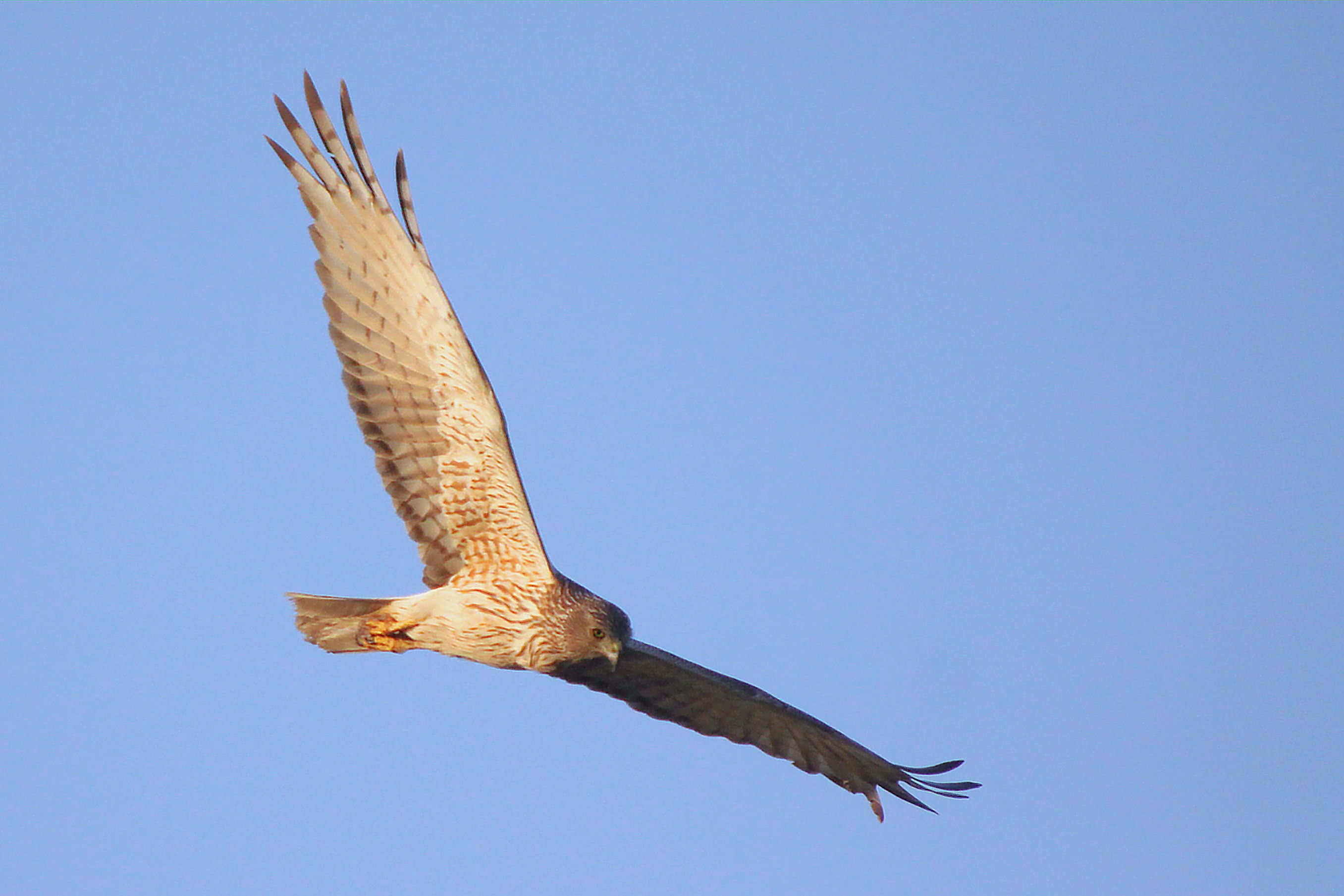 A Swamp Harrier Circus approximans in flight at 32°52'55"S, 151°42'06"E (near Newcastle, New South Wales)